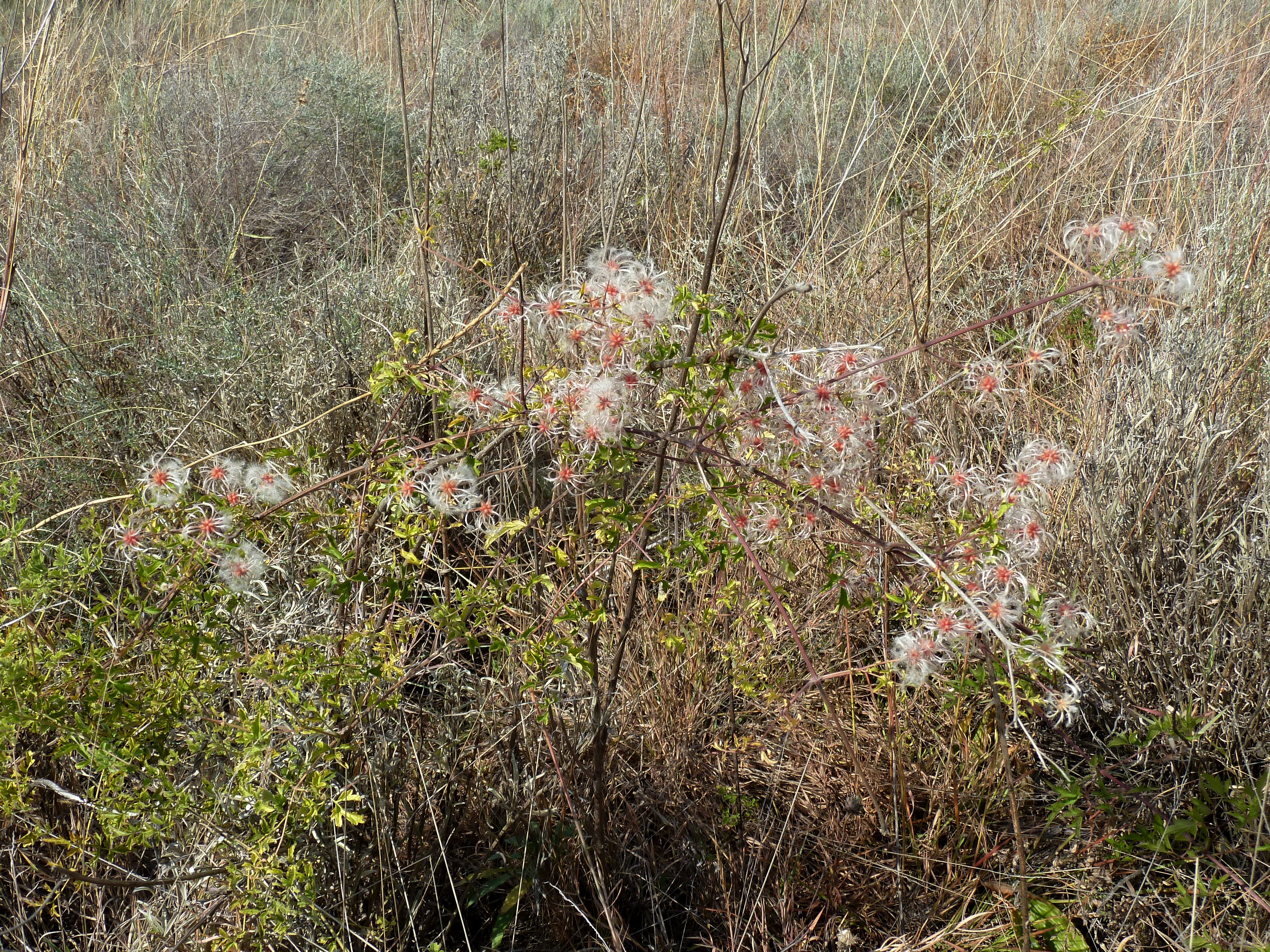 Red, feathery seed heads of Traveller's joy on the Phalandingwe trail at Pelindaba, near Pretoria